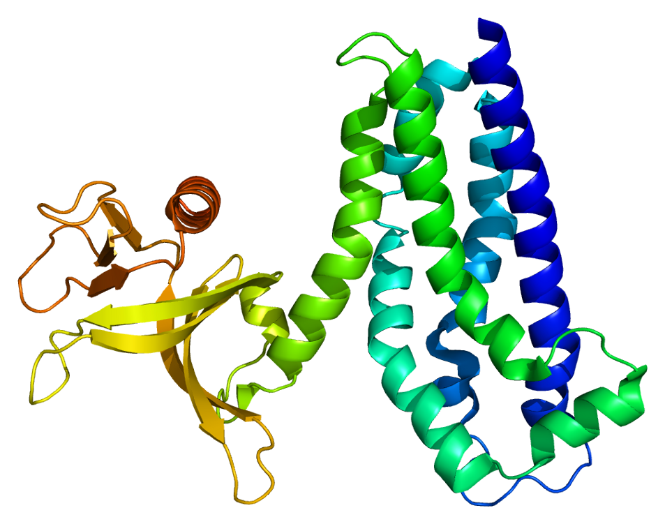 Structure of the TRIO protein. Based on PyMOL rendering of PDB 1nty.